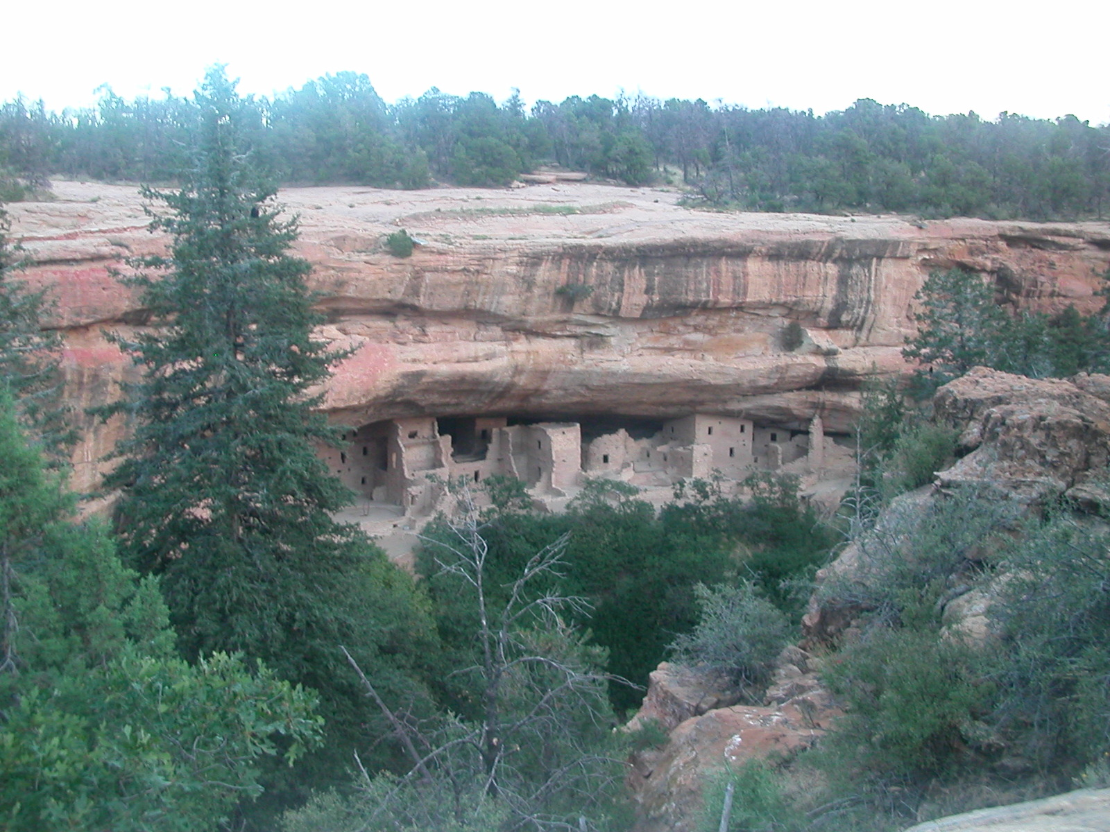 Pueblo Indian cave dwellings at Mesa Verde, CO